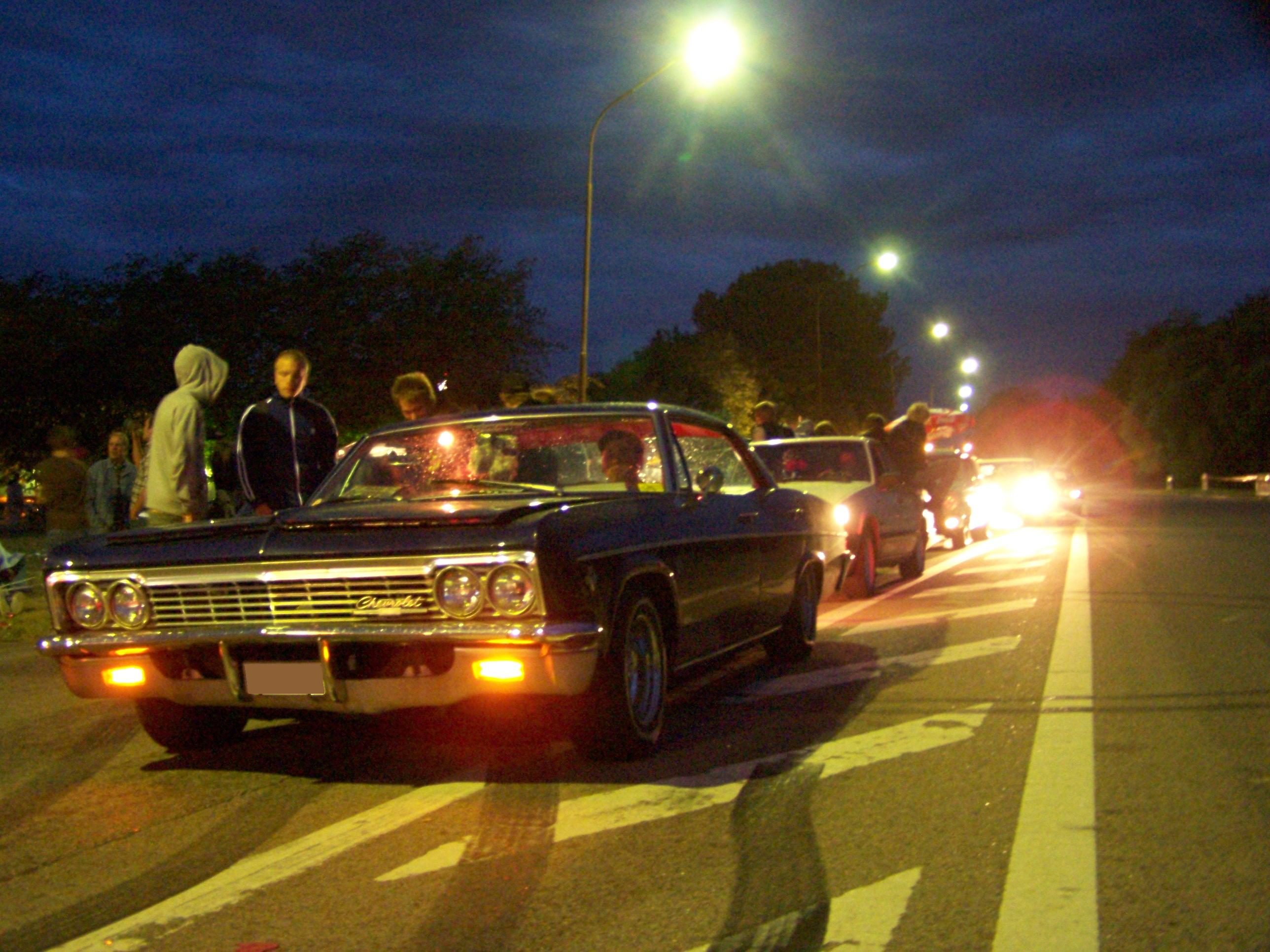 Cruising in Västerås, Sweden, during Power Big Meet 2008 on saturday night. Car in front is a 1966 Chevrolet Impala 4dr HT. Picture taken on Sjöhagsvägen.